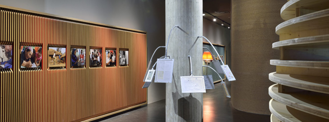 Francis Kéré Red Cross Gèneve